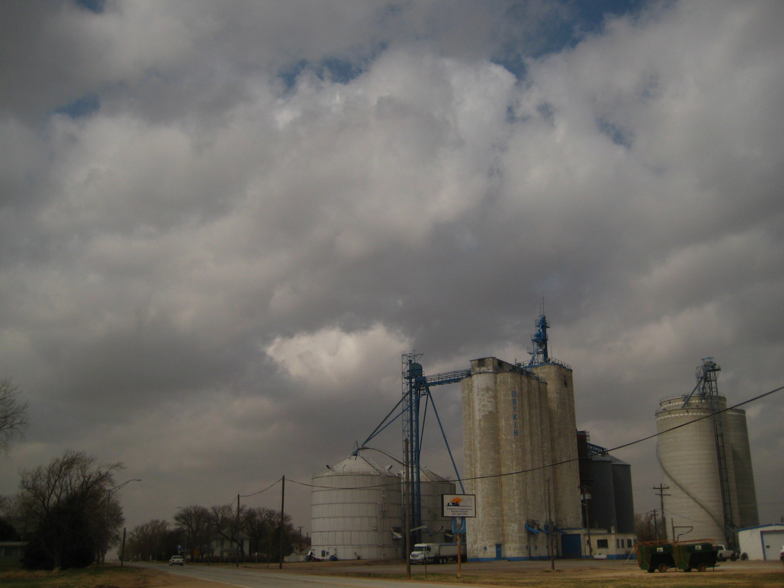 Farmers Co-OP Daykin, Nebraska